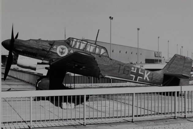 PictionID:38236386 - Catalog:Array - Title:Array - Filename:15_002327.TIF - -------Image from the Charles Daniels Photo Collection.----Album: German Aircraft.-----------PLEASE TAG these images with any information you know about them so that we can permanently store this data with the original image file in our Digital Asset Management System.-----------------SOURCE INSTITUTION: San Diego Air and Space Museum Archive